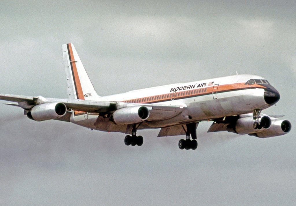 Convair CV-990A Coronado N5624 of Modern Air Transport at Miami International Airport in 1973